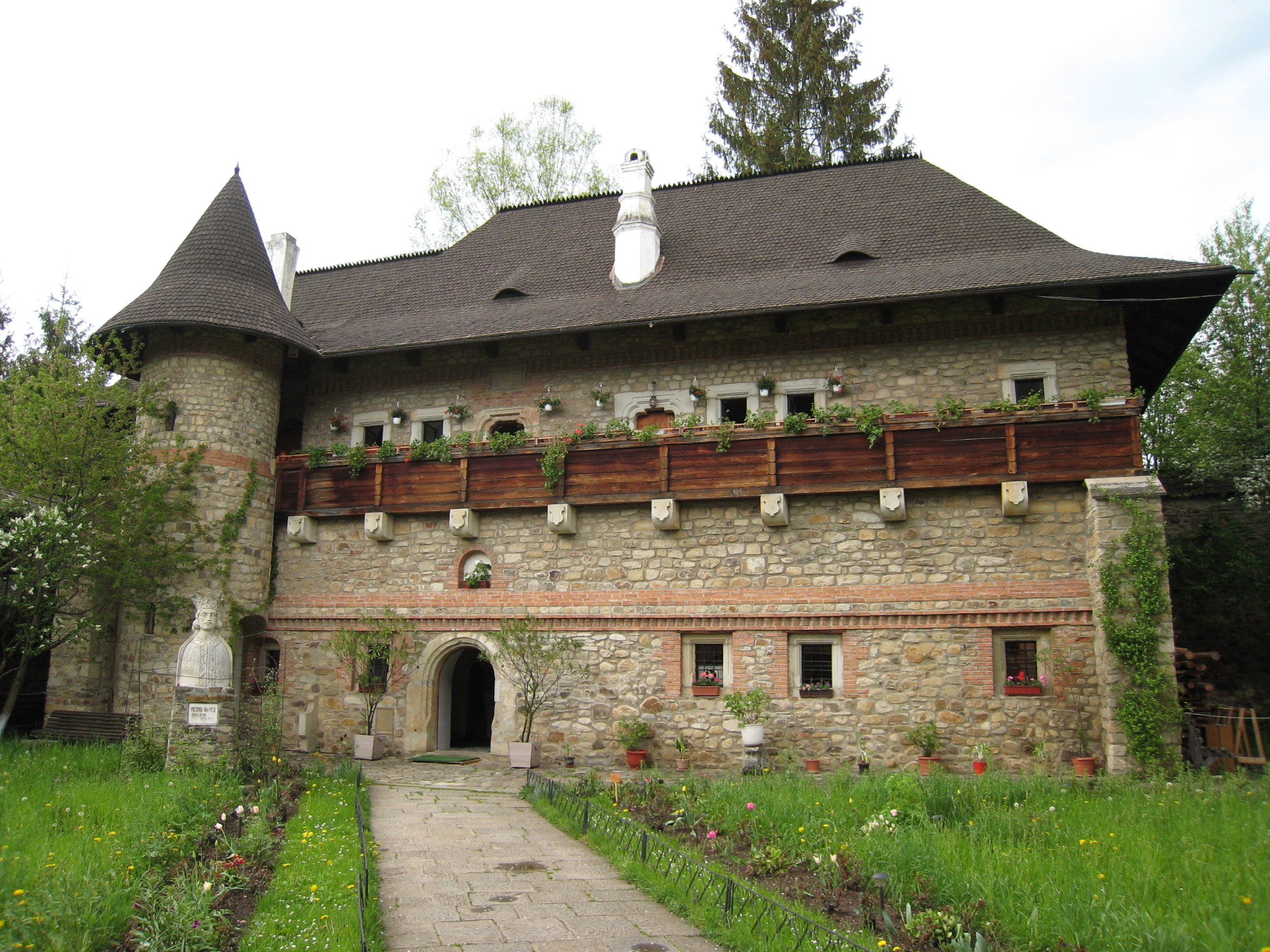 Clisiarnita with circular tower inside Moldovita Monastery